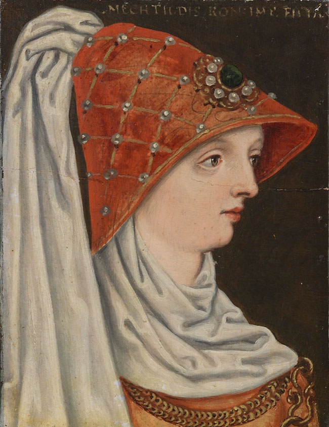 Matilda of Austria Duchess of Bavaria